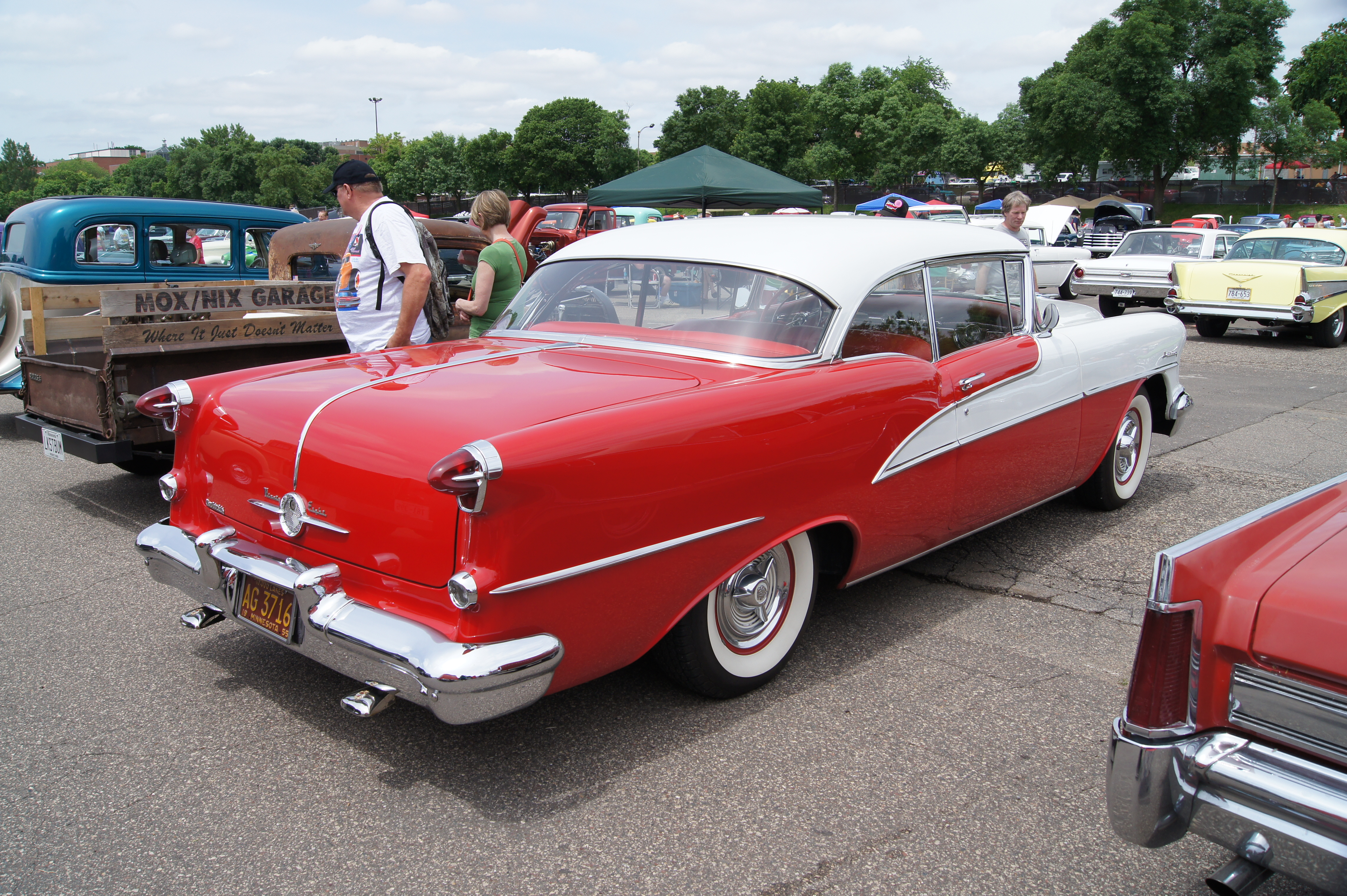 MSRA “BACK TO THE 50′s” 40th ANNIVERSARY June 21-23, 2013 State Fairgrounds St. Paul Minnesota More Car Pictures